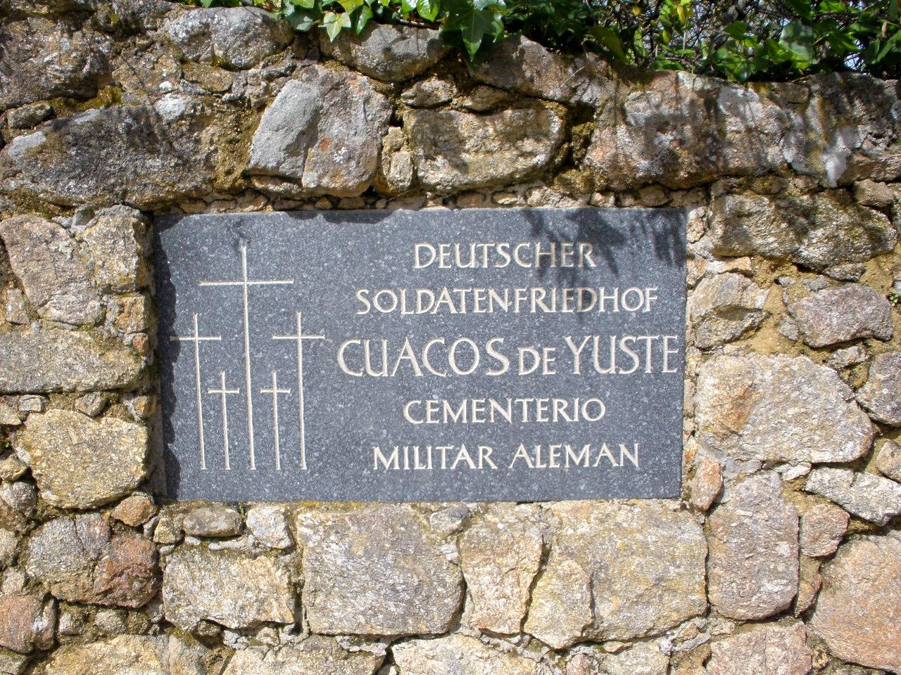 Placa en la entrada del Cementerio Militar Alemán de Cuacos de Yuste (Cáceres, Extremadura, España)